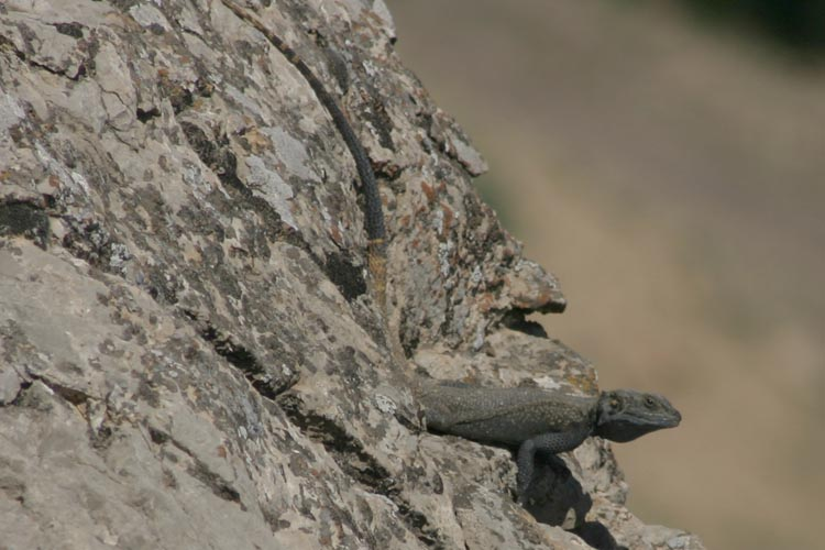 Laudakia nupta in Kashan, Iran